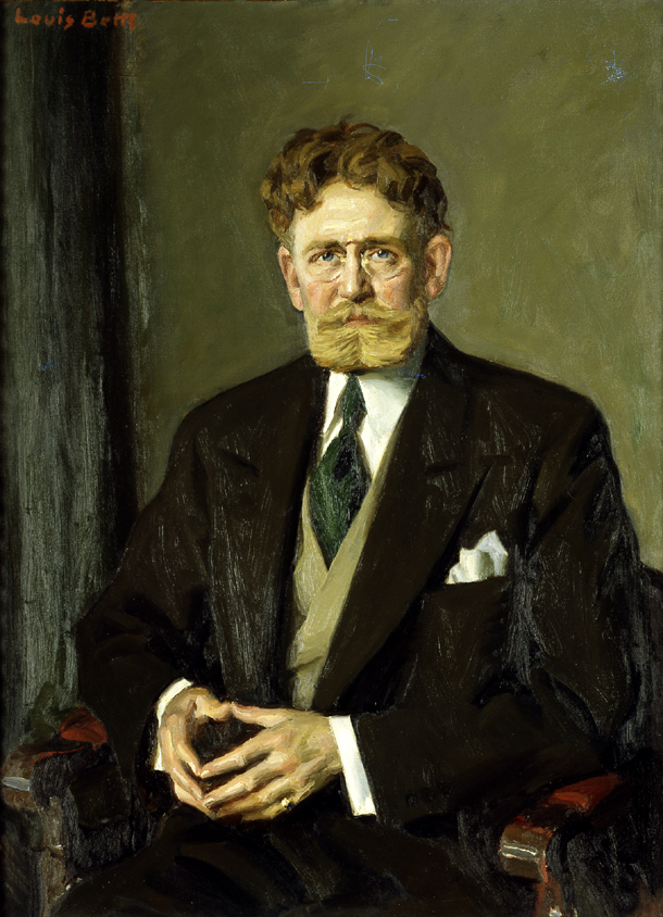 J. Hamilton Lewis by Louis Betts (1873 - 1961) Oil on canvas, n. d. Sight measurement Height: 39.5 inches (100.3 cm) Width: 28.88 inches (73.3 cm) Signature (upper left corner): Louis Betts Cat. no. 32.00015.000 source